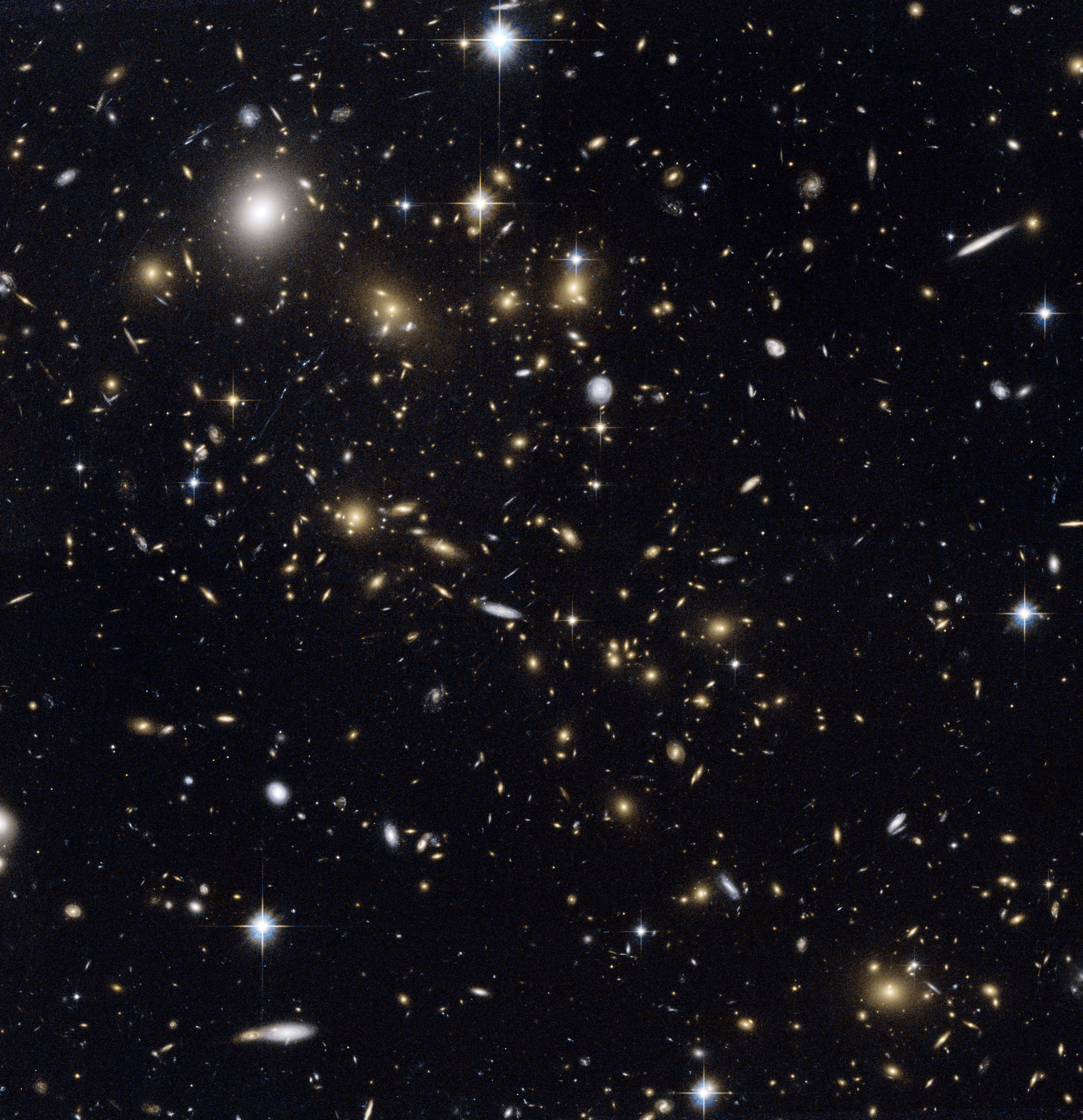 At first glance, the scatter of pale dots on this NASA/ESA Hubble Space Telescope image looks like a snowstorm in the night sky. But almost every one of these delicate snowflakes is a distant galaxy in the cluster MACS J0717.5+3745 and each is home to billions of stars.